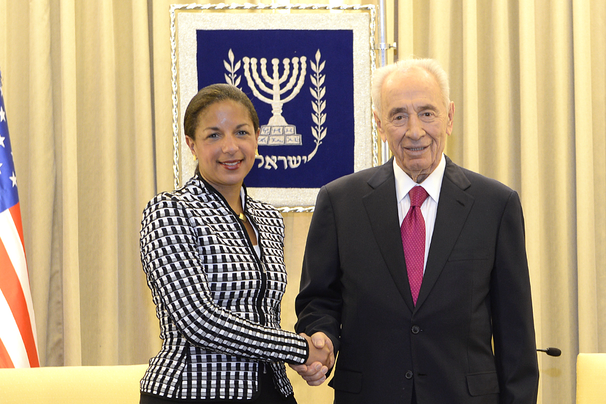 NSC adviser Susan E. Rice visit to Israel